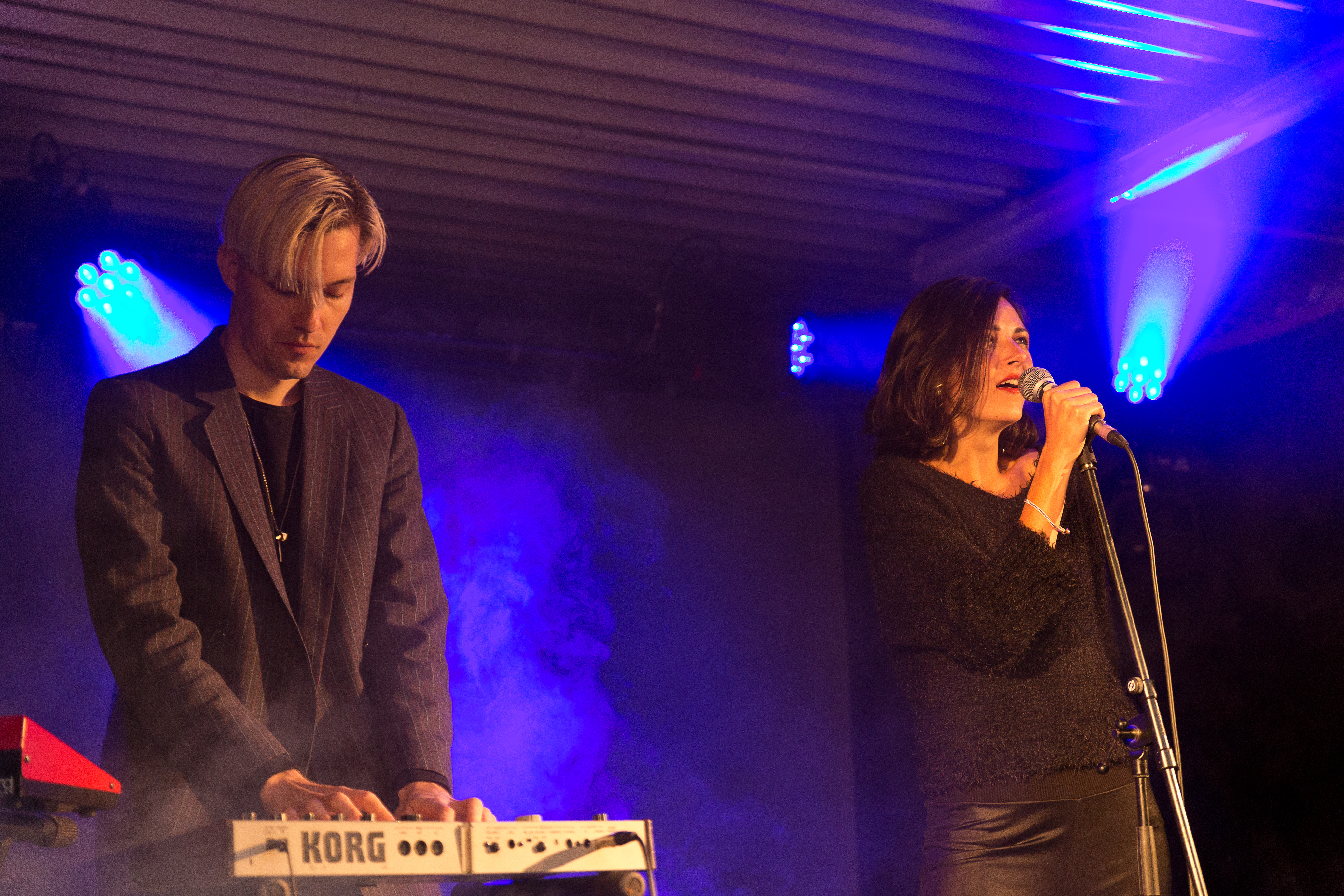 The Serbian-German synthpop band Sixth June at the Nocturnal Culture Night 10 2015 in Deutzen/Germany.